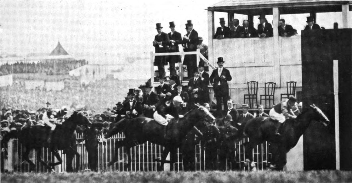 Finish of the 1920 Epsom Derby (Spion Kop far right).